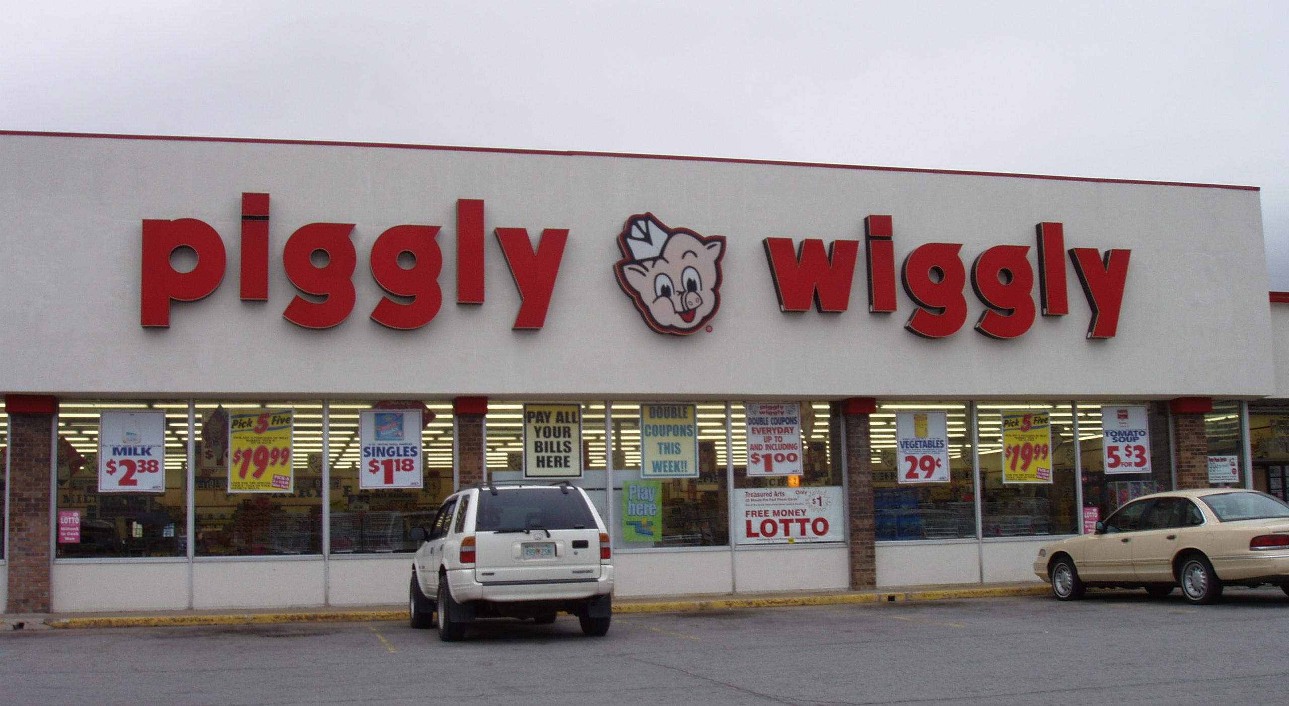 A Piggly Wiggly store in Owasso, Oklahoma